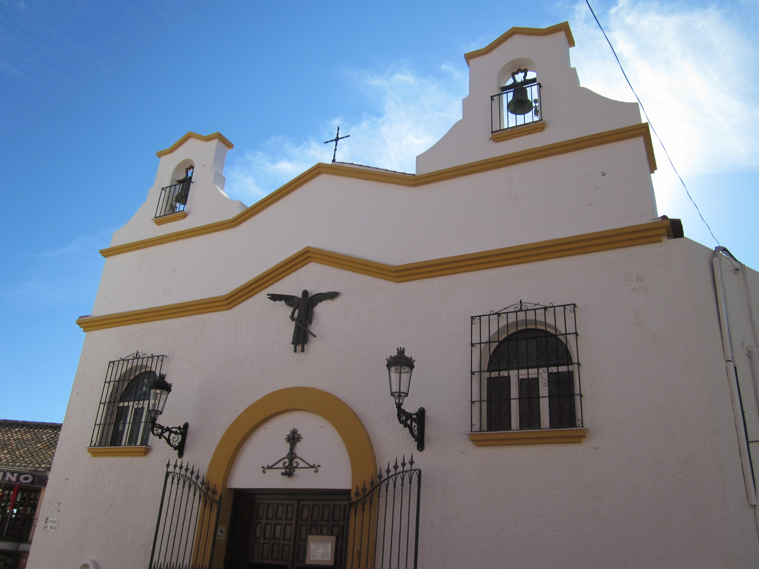 Parish Church of San Miguel Arcangel in Torremolinos, Spain